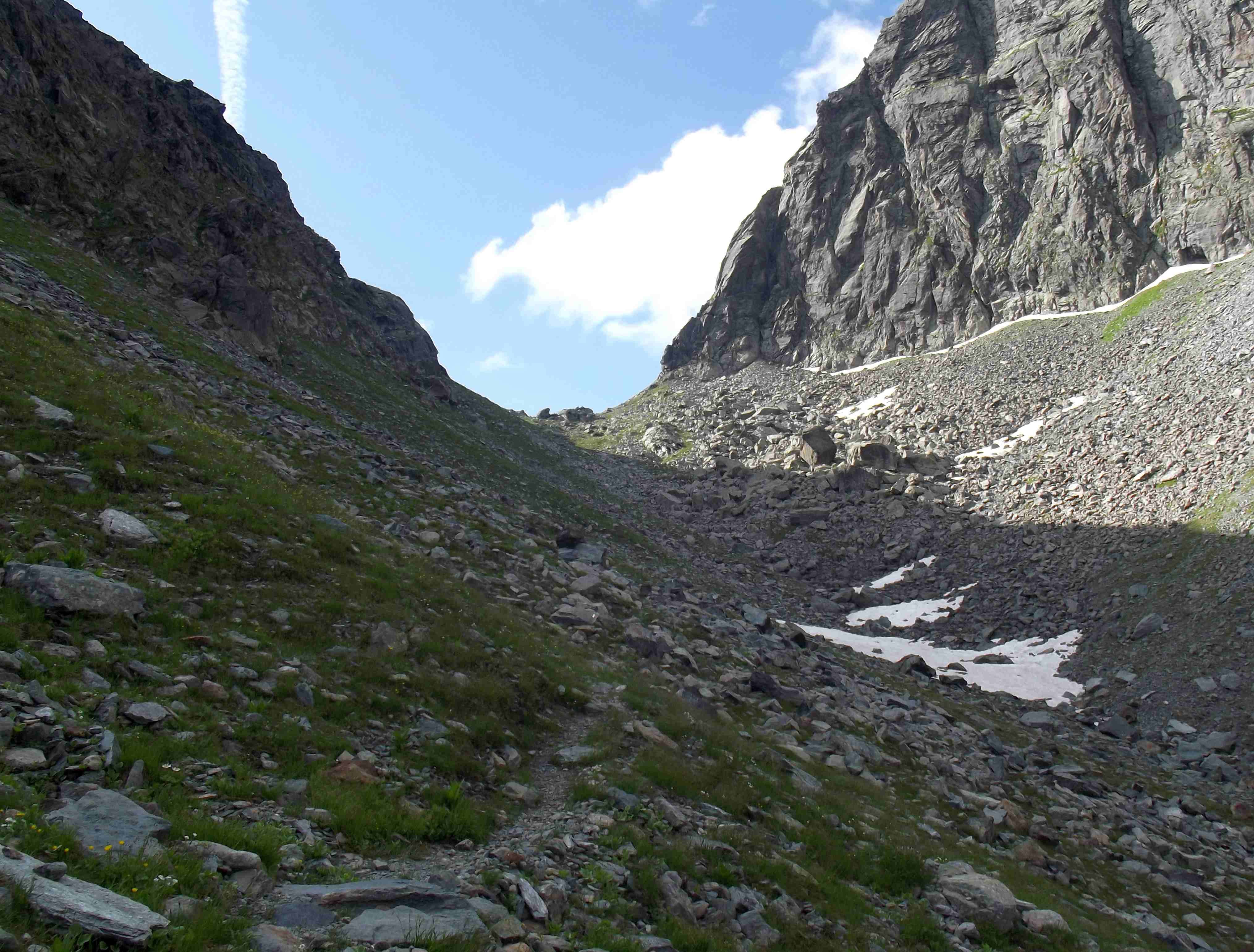 Passo Paschiet (TO, Italy, Graian Alps) as seen from the Val d'Ala